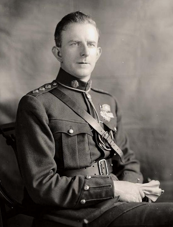 General Eoin O'Duffy